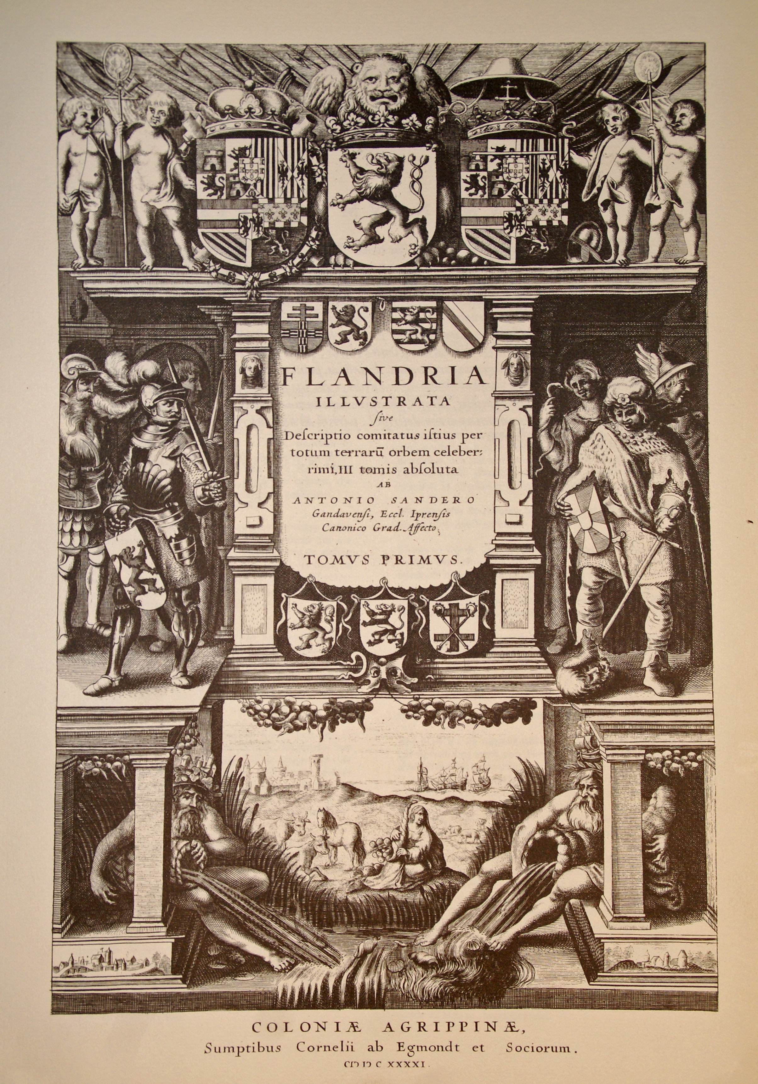 Frontispiece of the first edition (1641) of the Flandria Illustrata d'Antoon Sander